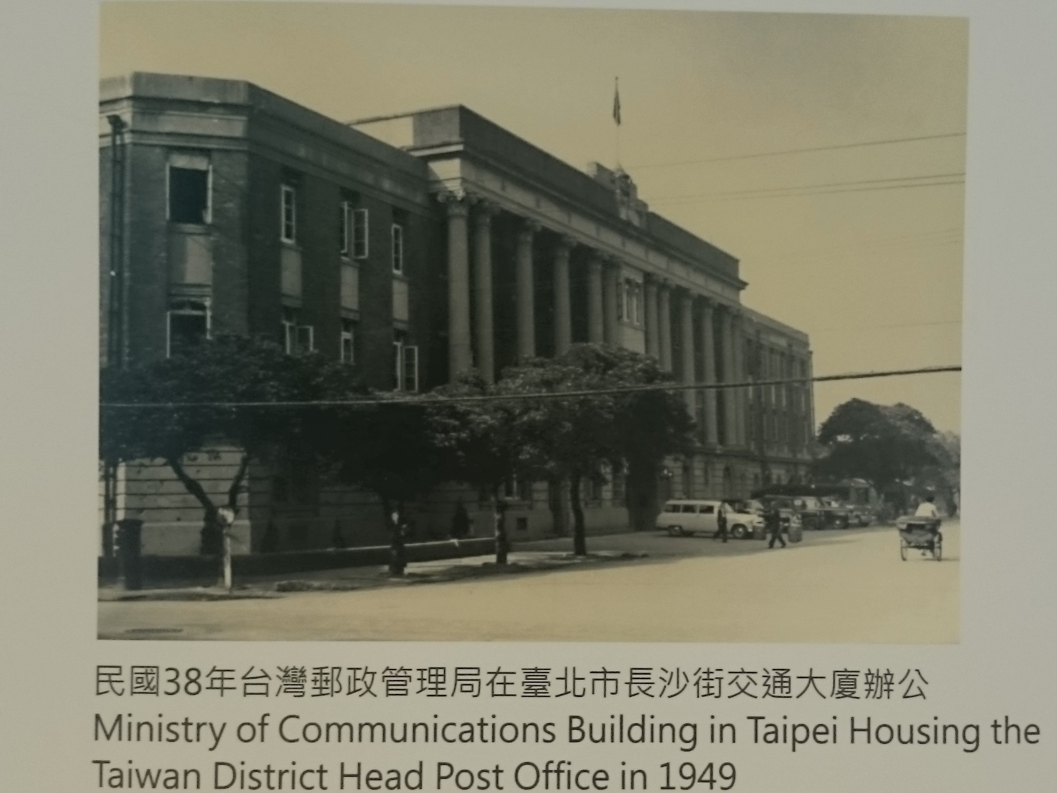 Ministry of Communications Building in Taipei Housing the Taiwan District Head Post Office in 1949.